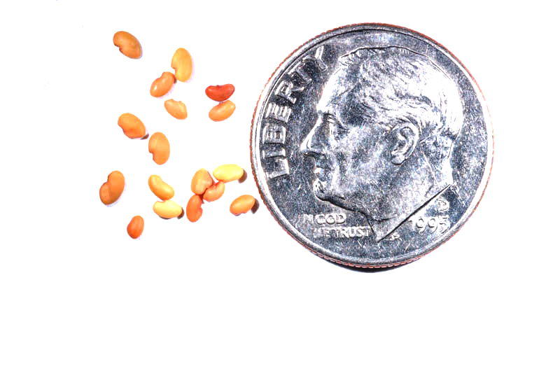 Seeds of Medicago sativa (alfalfa) next to a U.S. dime for scale. (removed shadows created by the flash and specks of dirt and enhanced color)